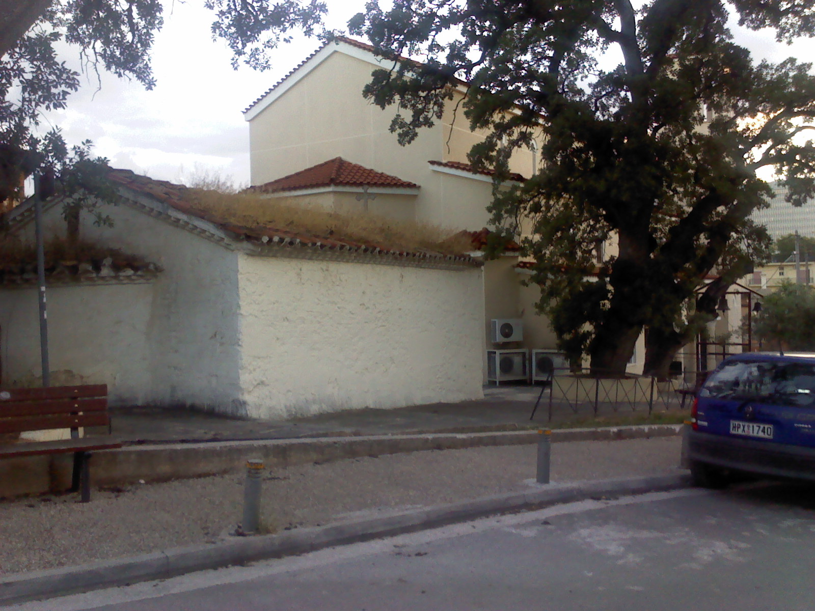 Agios Eleftherios Marousi - old and new church